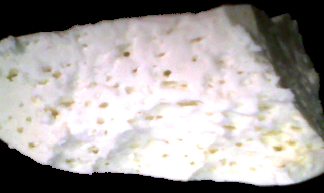 Vlasićki (also known as Travnički) cheese from Bosnia and Herzegovina